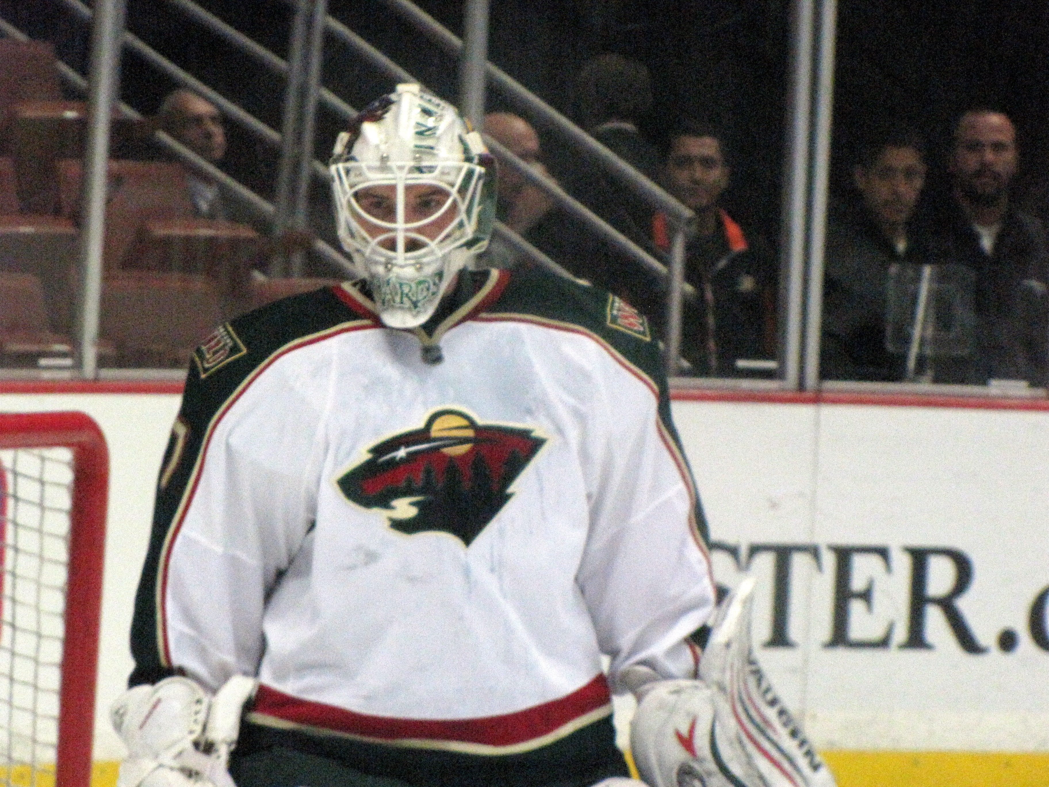 Goaltender Josh Harding of the Minnesota Wild prior to a game against the Anaheim Ducks on December 4, 2011.